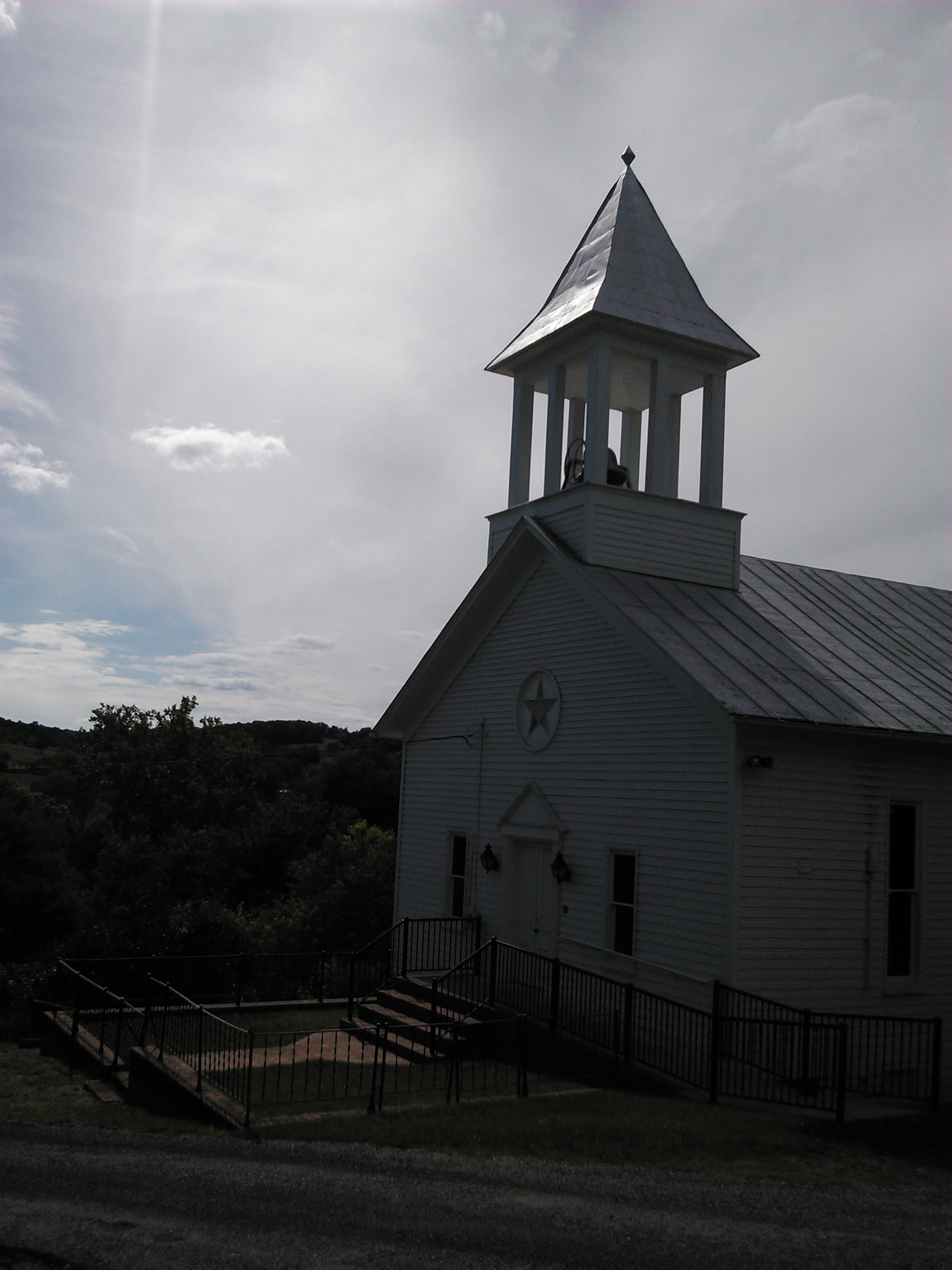 31 Mt. Clifton Church Lane (above Orkney Grade), Mt. Jackson, Virginia